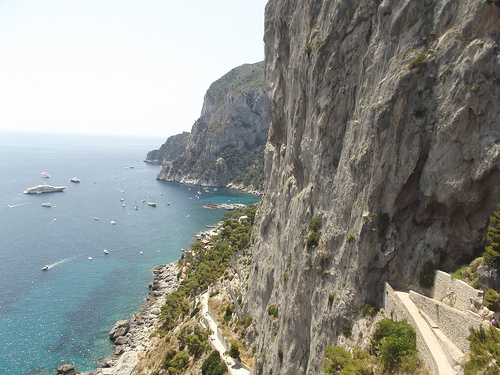 Via Krupp's rocks, in Capri, Naples, Italy.